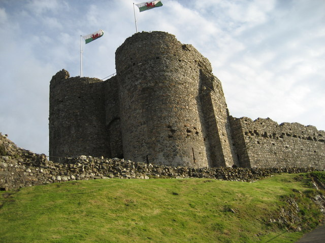 Criccieth Castle